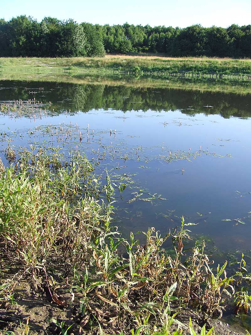 Rainwater basin with water knotweed (persicaria amphibia) in the nature area Bremerholm, Århus, Denmark